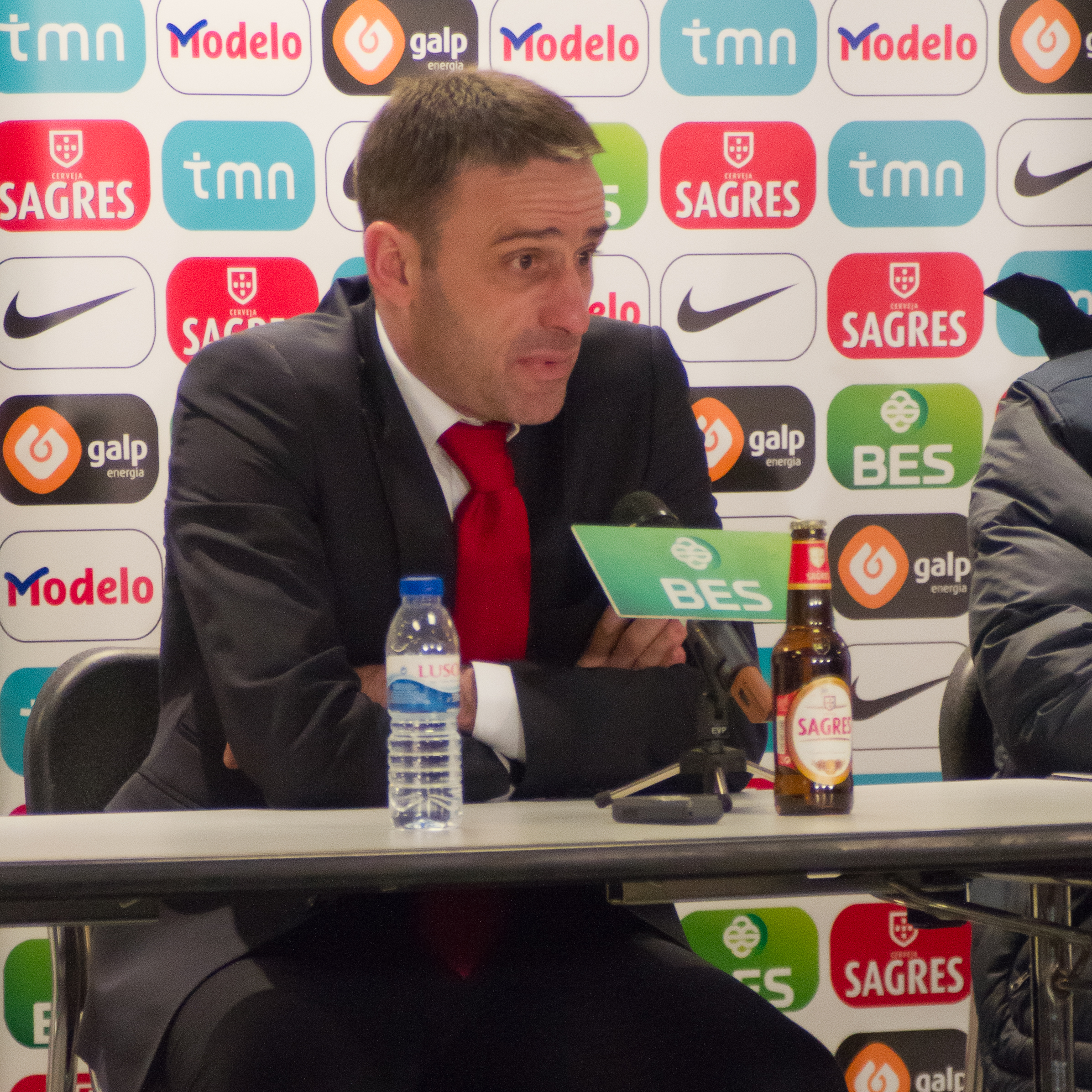 The making of this document was supported by Wikimedia CH. (Submit your project!) For all the files concerned, please see the category Supported by Wikimedia CH. Portugal vs. Argentina, 9th February 2011